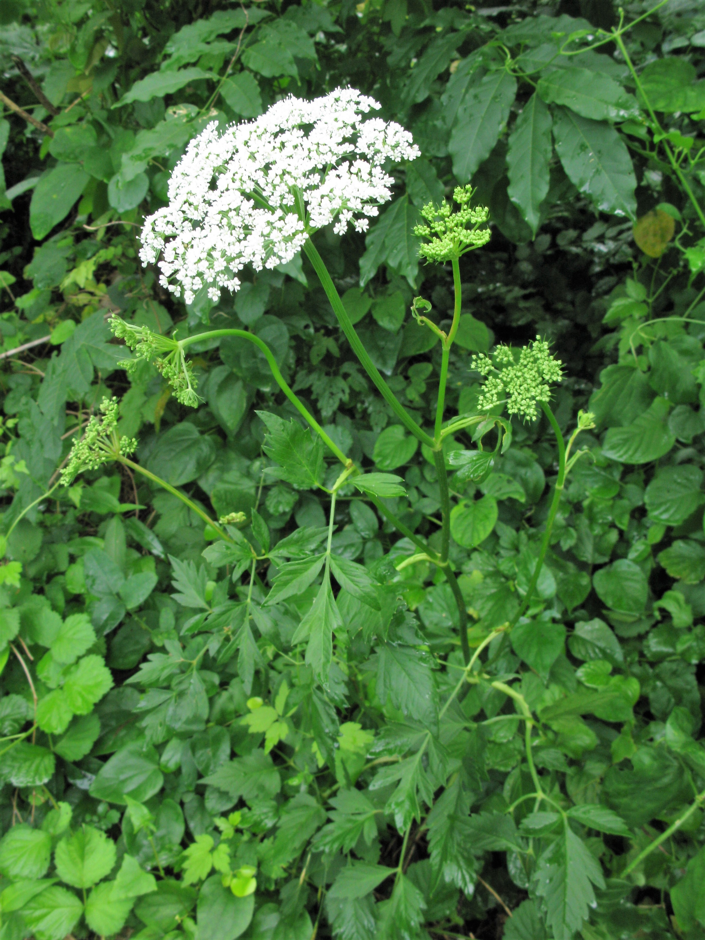 Dystaenia ibukiensis, Shonai area, Yamagata pref., Japan